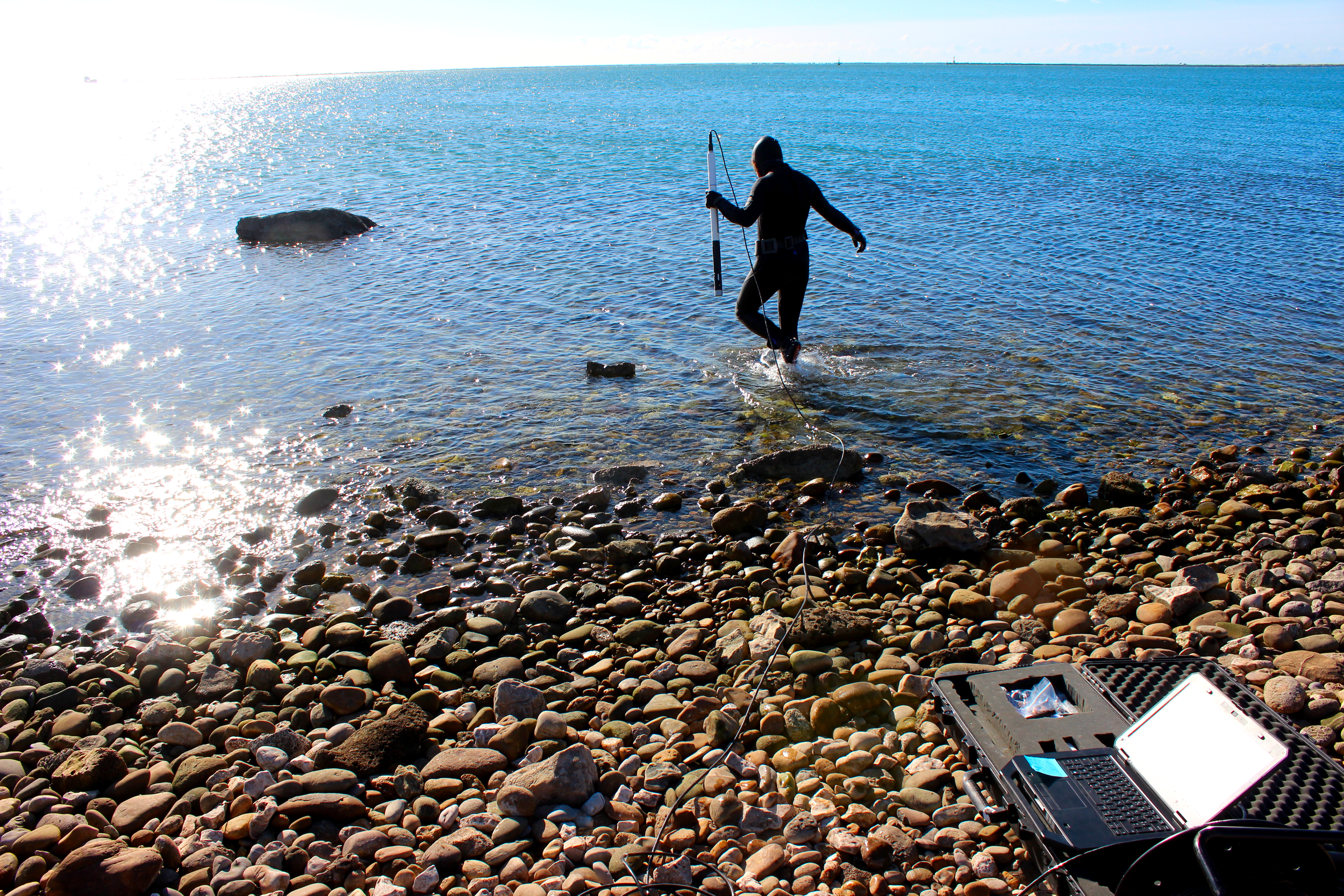 A scientist goes diving to record seawater hydrologic parameters with a CTD, where she has collected sea urchins in the Mediterranean Sea (Gulf of Fos, France) FOS-SEA ANR & Sud-PACA Region funded project